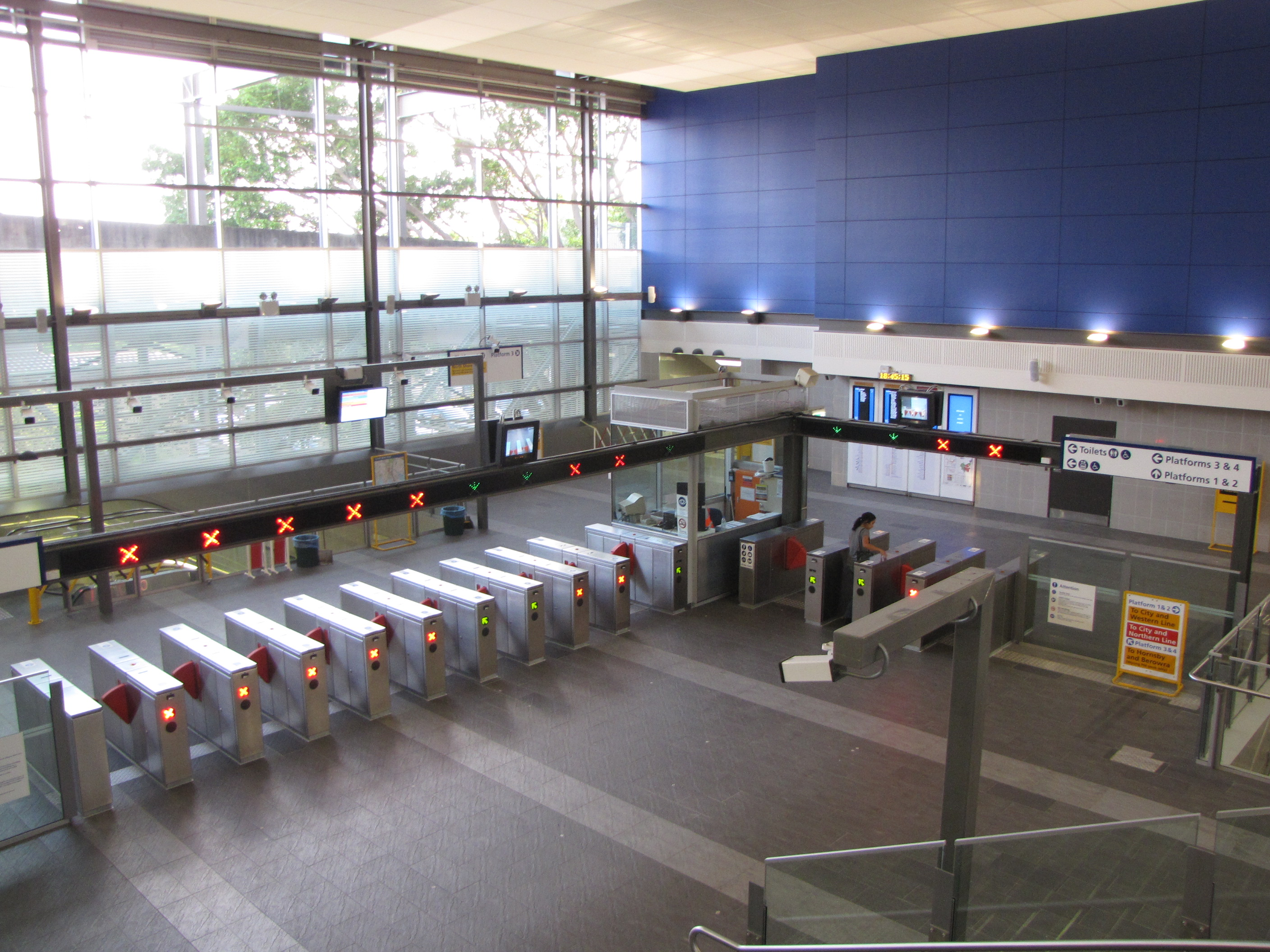 North Sydney Railway Station concourse. From